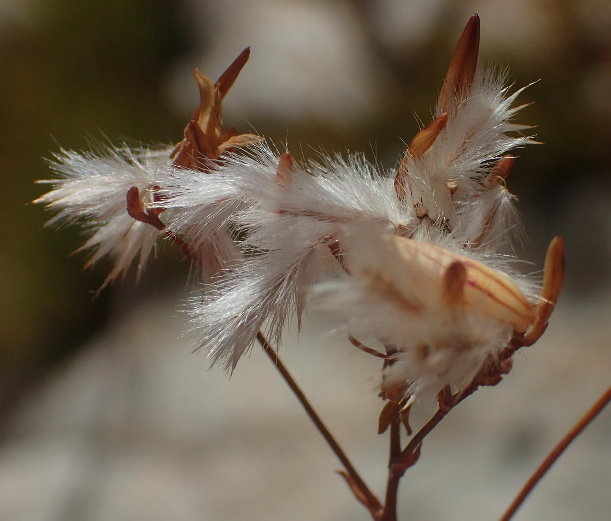 Corymbium seeds, photographed by Nicola van Berkel, on 28 January 2017, at Northern Swartberg, Road to Die Hel, Prince Albert County, Western Cape province of South Africa